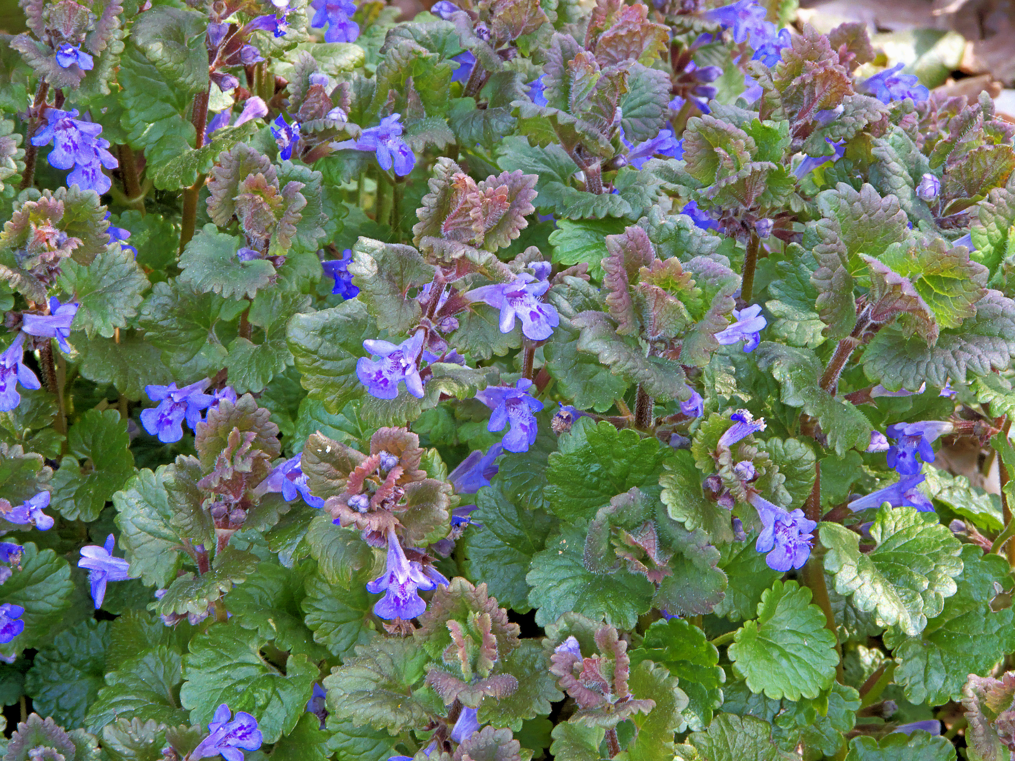 Glechoma hederacea